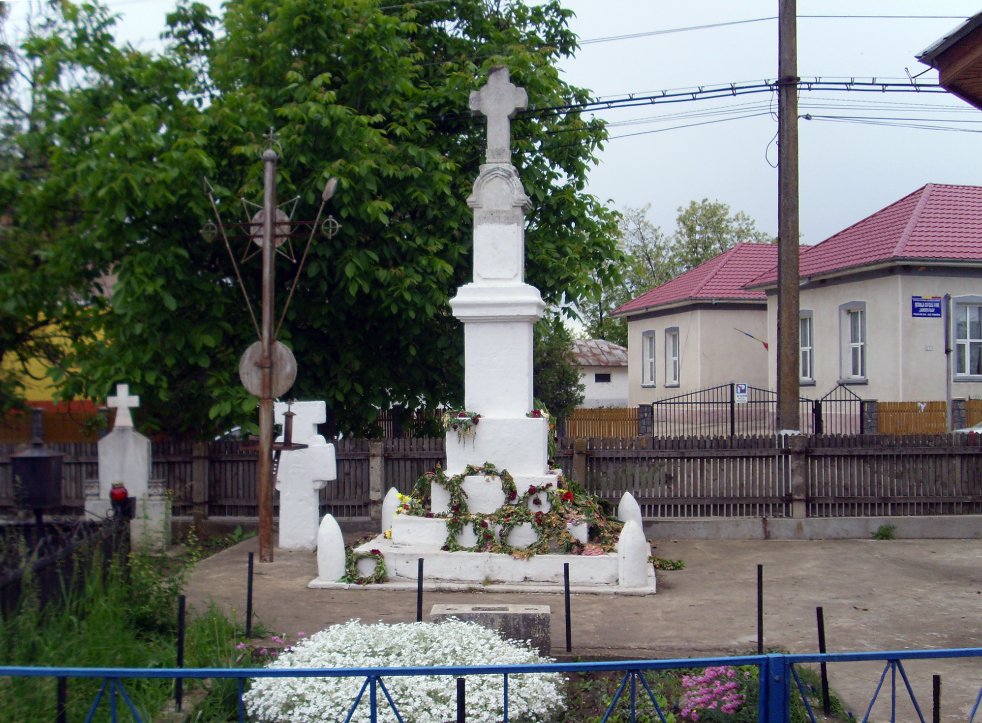 scoala fulga de sus